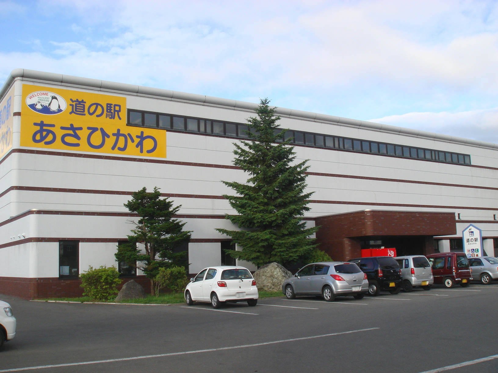 Michinoeki(Roadside Station) Asahikawa (Asahikawa, Hokkaidō)